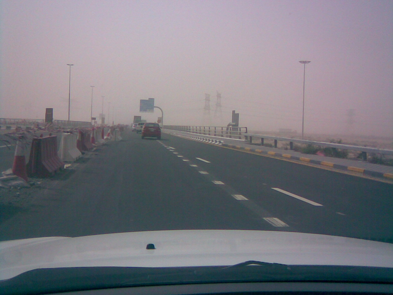 Driving through a sandstorm, Dubai bound from Sharjah on E 611 Road in the United Arab Emirates.